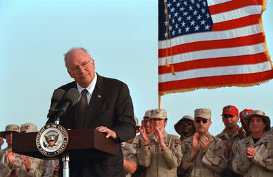 Vice President Dick Cheney speaks to US troops